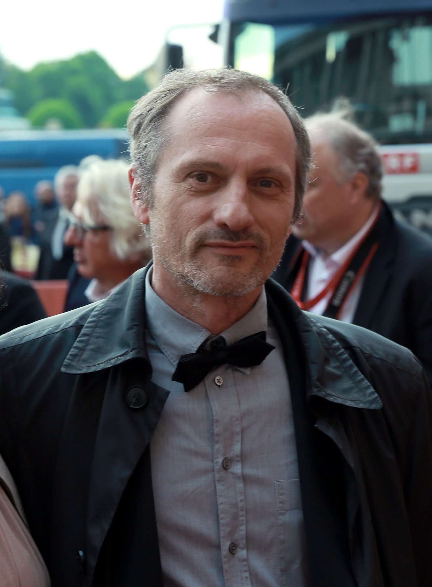 Götz Spielmann at the Romy film awards 2014 (Hofburg Imperial Palace in Vienna)